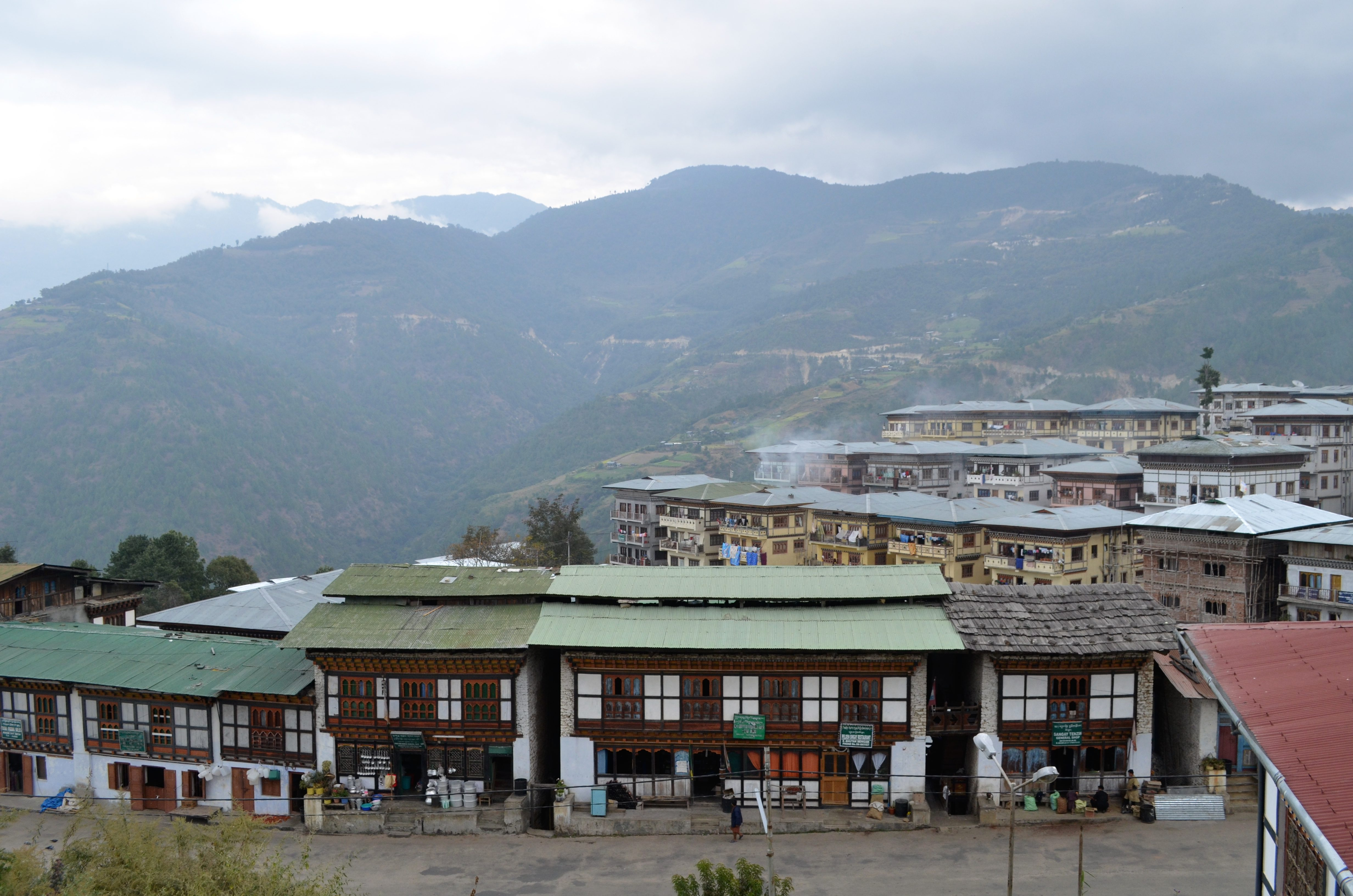 A view of Mongar Town, Mongar Didtrict, Bhutan